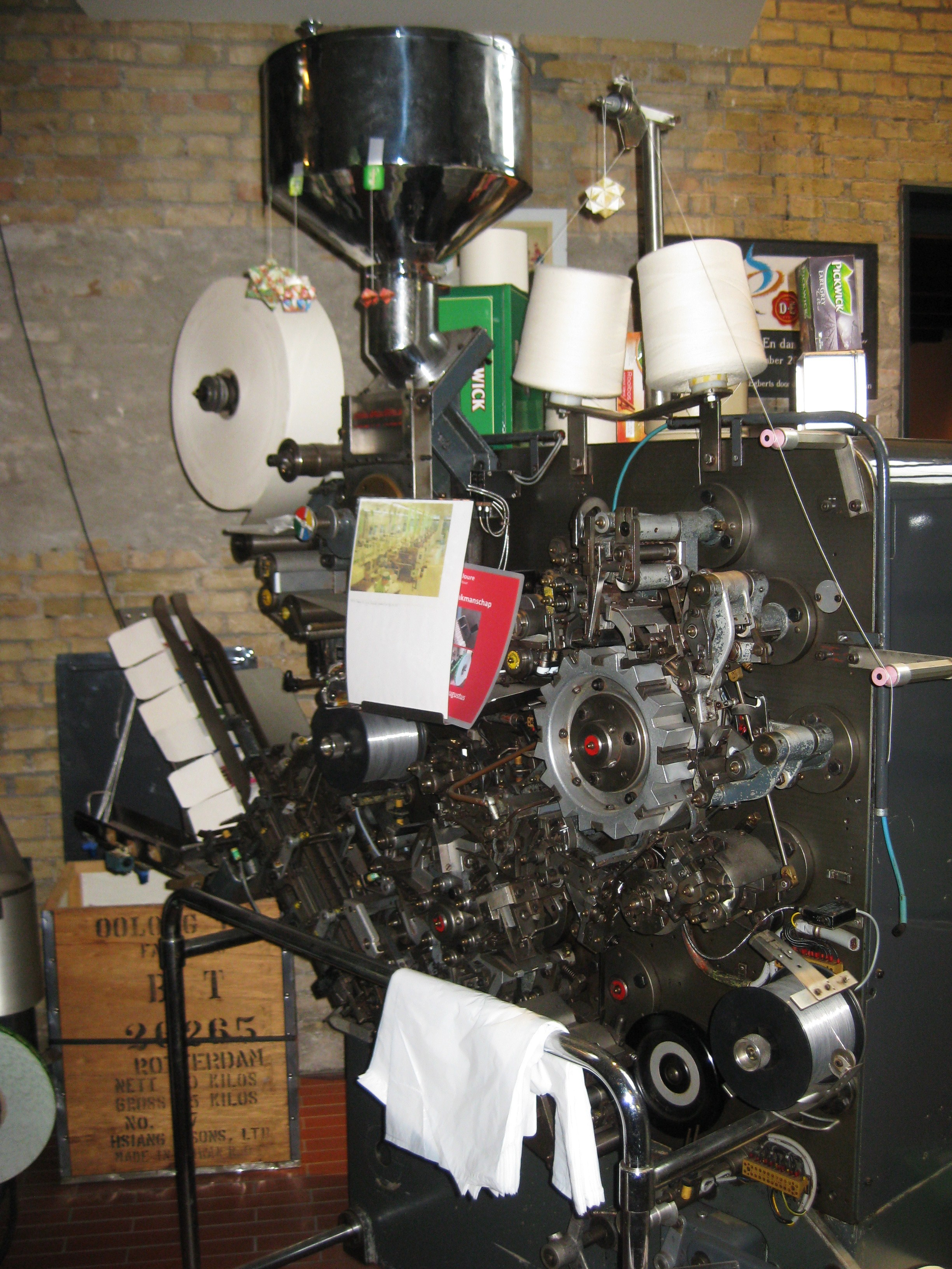 Tea bag machine in the Douwe Egbertsmuseum in Joure, Friesland